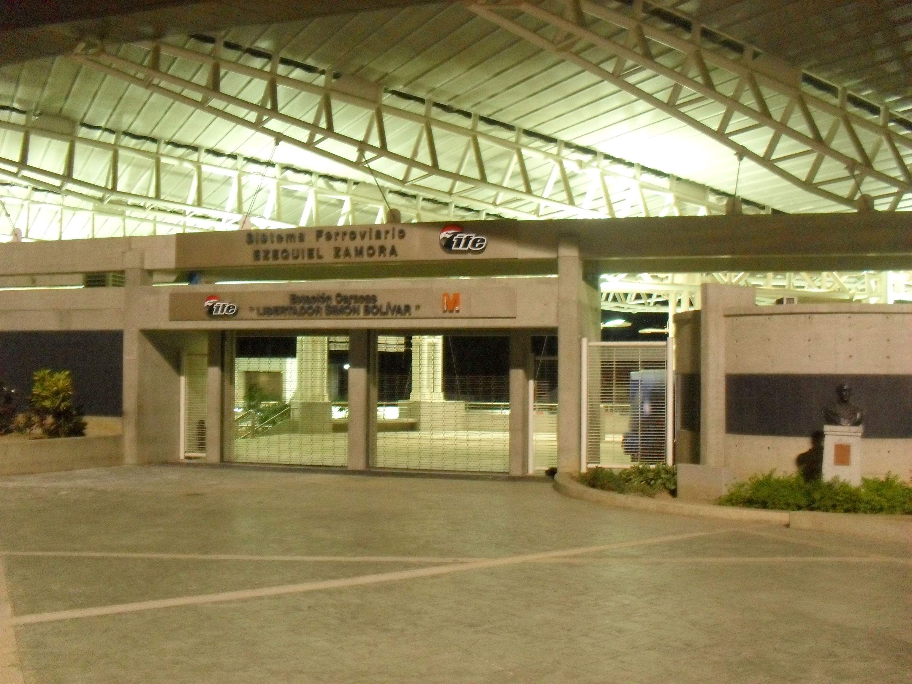 Caracas Railway Station System,Caracas Bolivarian Republic of Venezuela